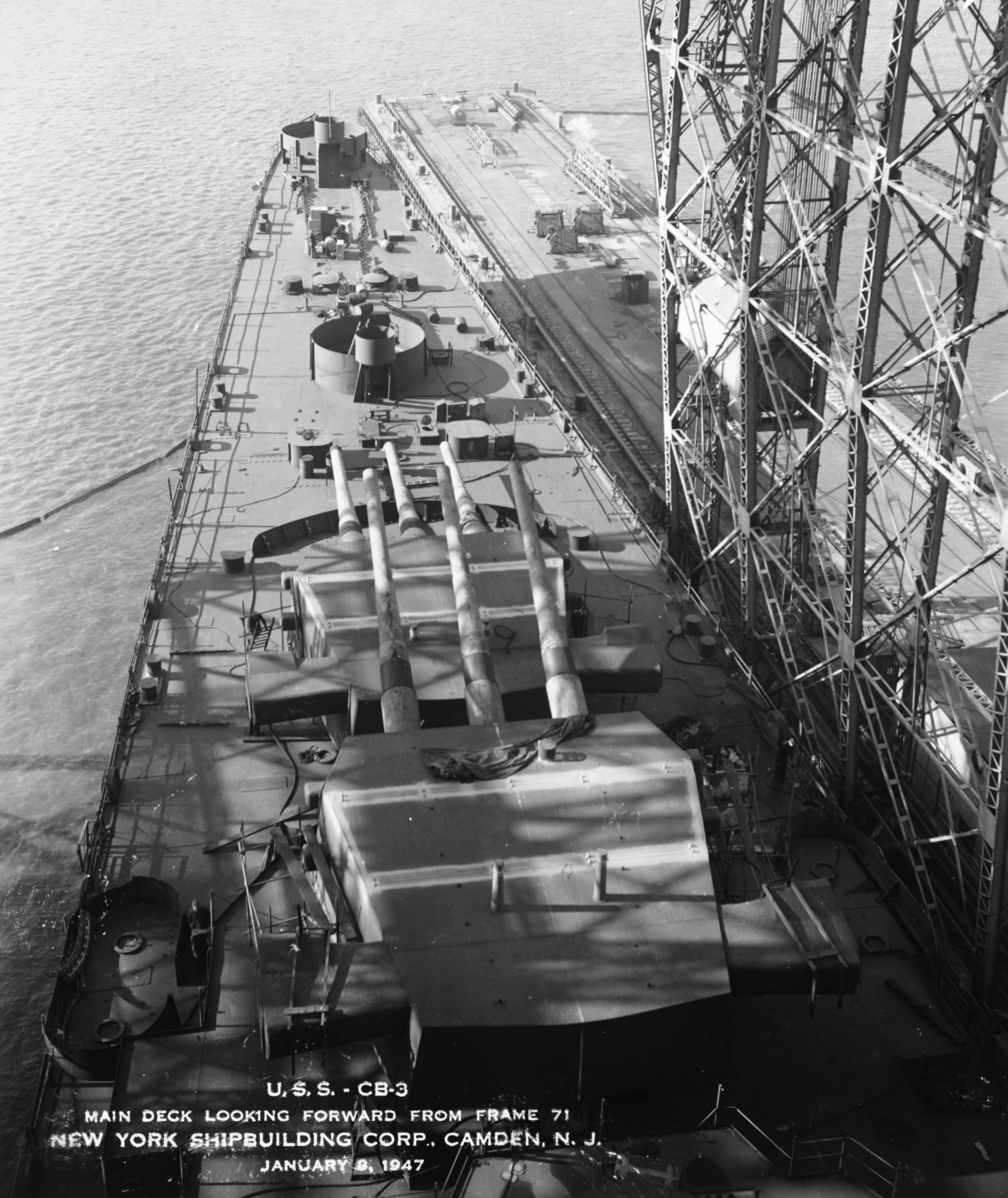 View of the forward portion of the U.S. Navy large cruiser USS Hawaii (CB-3) during construction at the New York Shipbuilding Corporation, Camden, New Jersey (USA), on 8 January 1947. Construction was officially suspended on 17 February 1947. Hawaii's three 305 mm gun turrets were removed when the ship was moved to the Philadelphia Reserve Fleet.